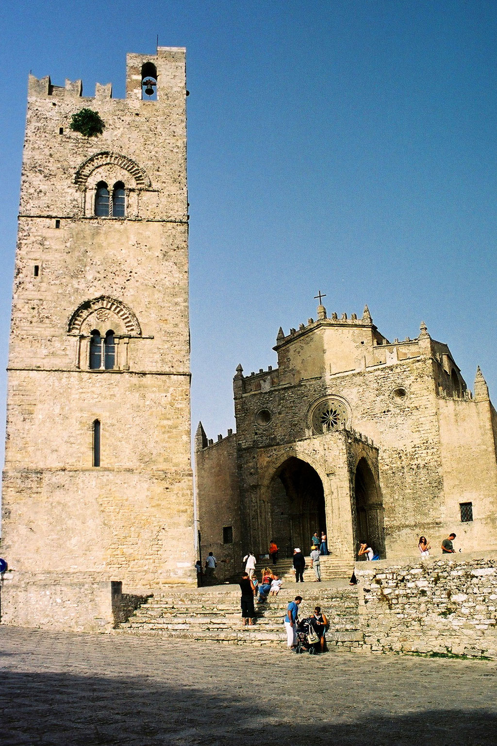 Chiesa Madre, Erice Main facade and tower